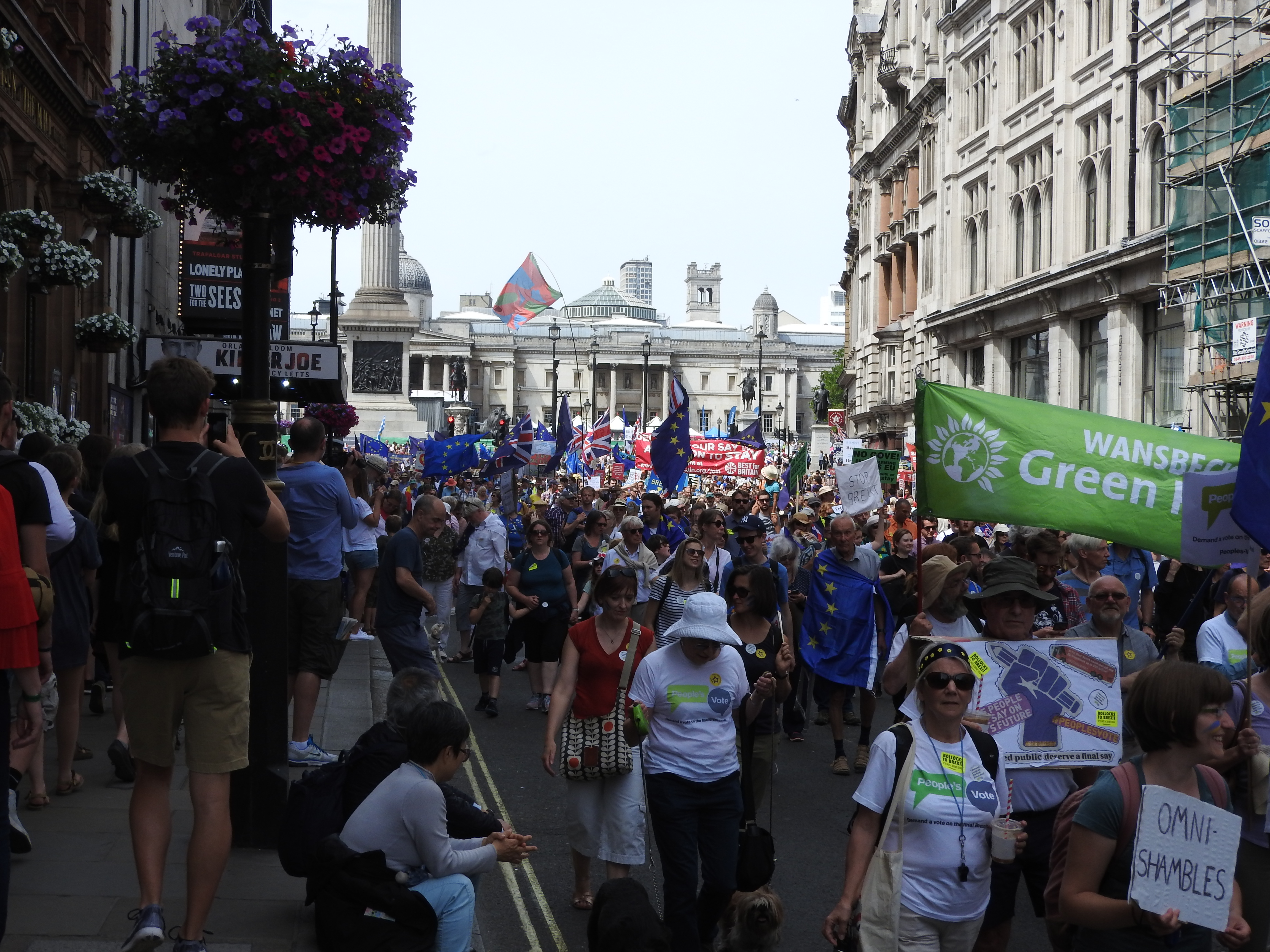 Some of the 100,000 remainers at the march through Whitehall, 23 June 2018. The issue was to stop Brexit and remain permanently in the European Union.